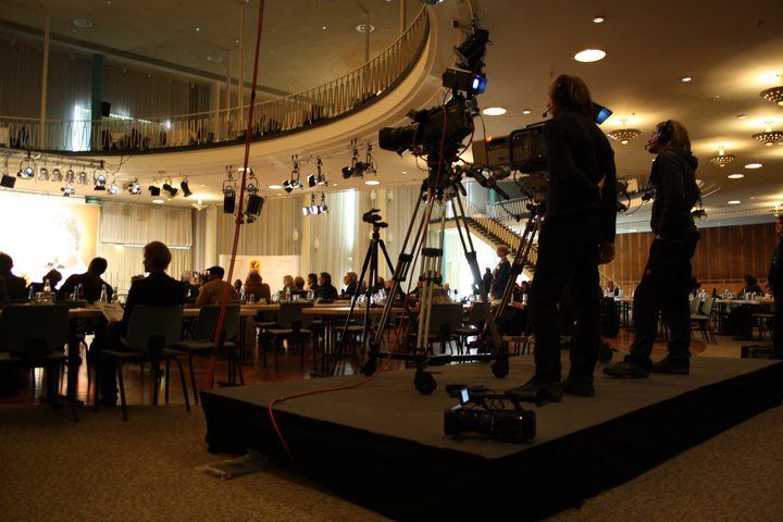 Eröffnungs-Pressekonferenz der ITB Berlin im Palais am Funkturm, 2011